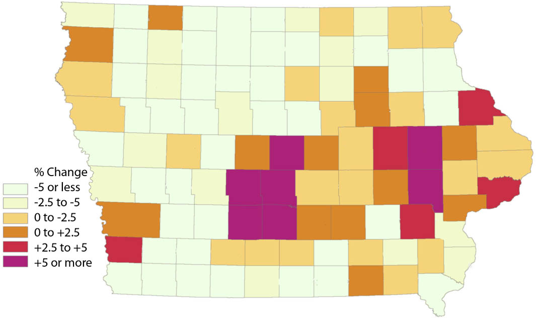 Population changes in Iowa counties, 2000 to 2008, by percentage.